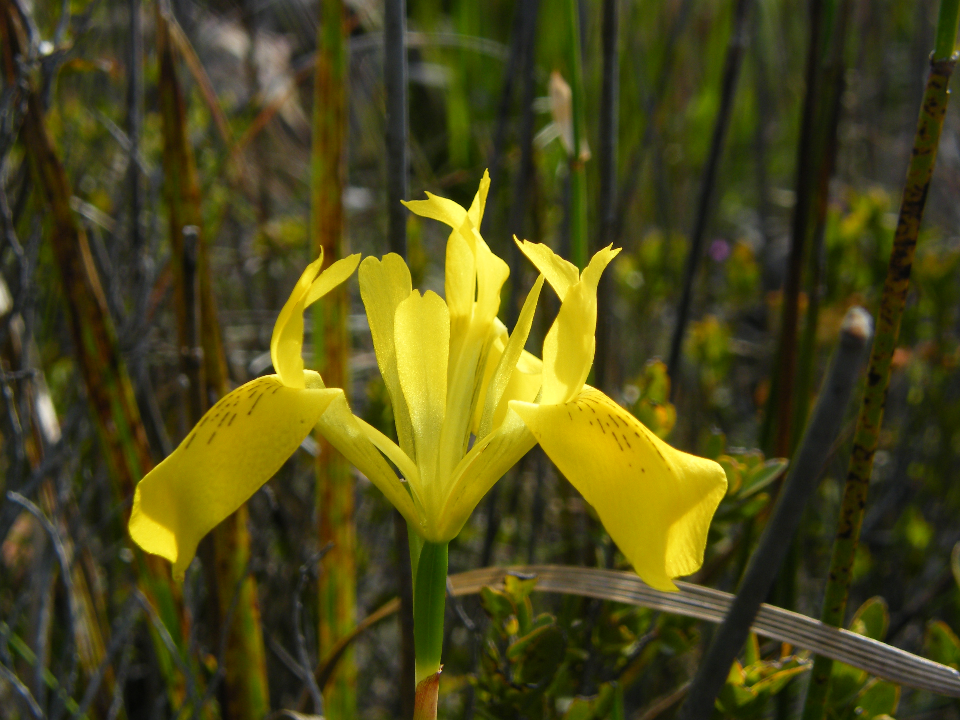 Moraea neglecta. Brown dots on the tepals are diagnostic.